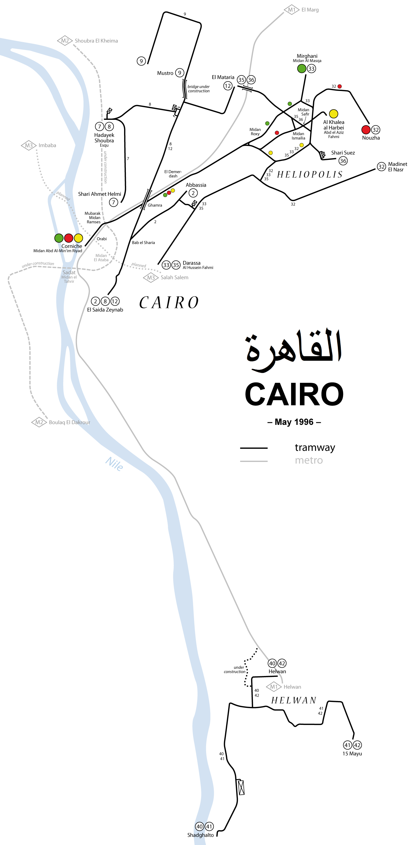 Public transport map of Greater Cairo, 1996 (with Heliopolis and Helwan)